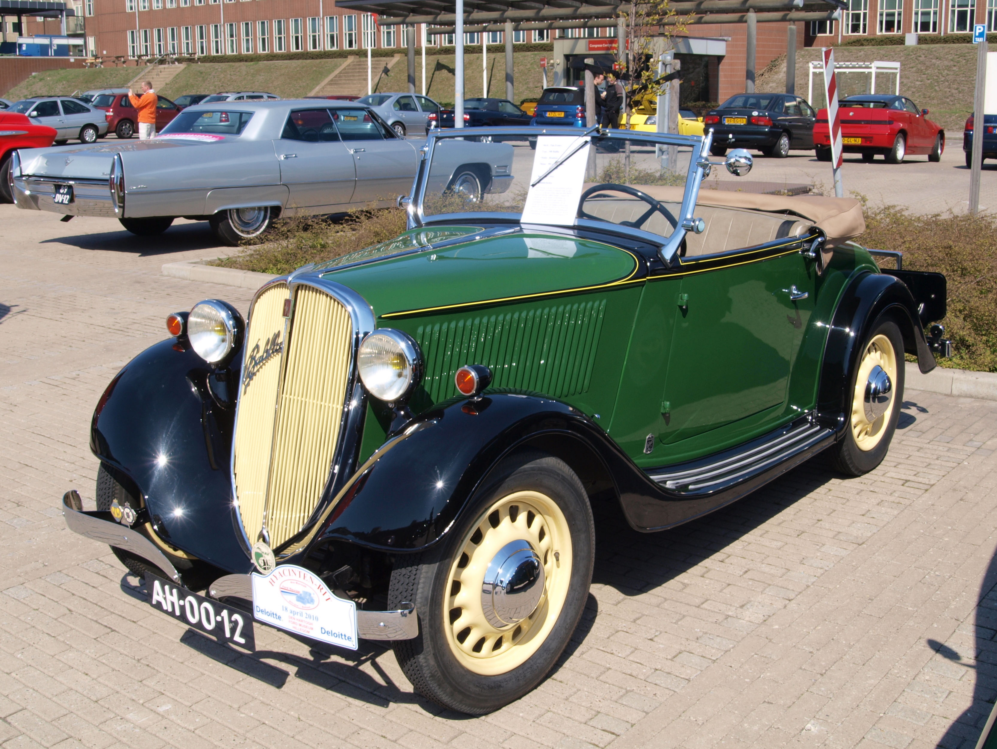 Photographed at the Hyacintenrit 2010, The Netherlands.